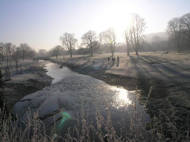 Dogwalking by the River on Boxmoor This image was taken from the Geograph project collection. See this photograph's page on the Geograph website for the photographer's contact details. The copyright on this image is owned by Geoff Harris and is licensed for reuse under the Creative Commons Attribution-ShareAlike 2.0 license. Attribution: Geoff Harris